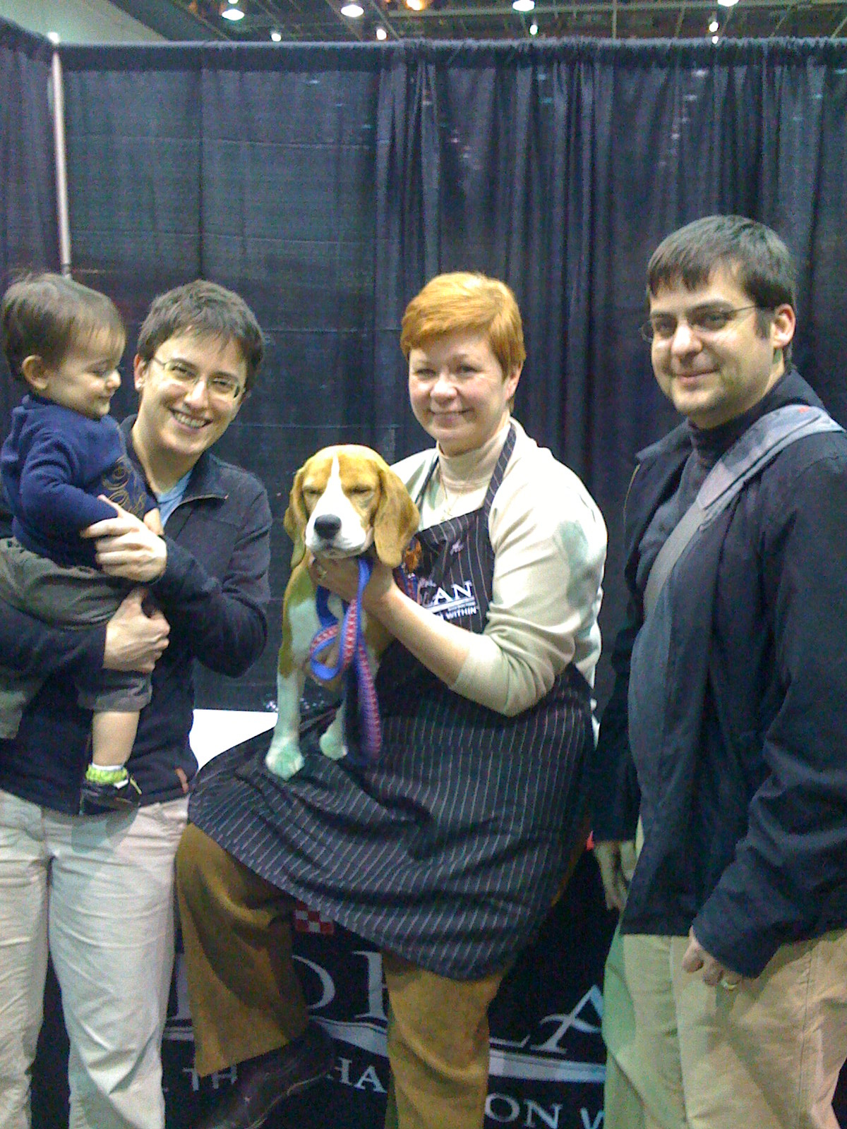 Meeting Uno the Westminster best in show 2008 - Camera phone upload powered by ShoZu